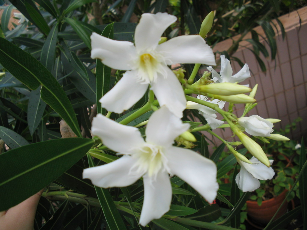 White Oleander